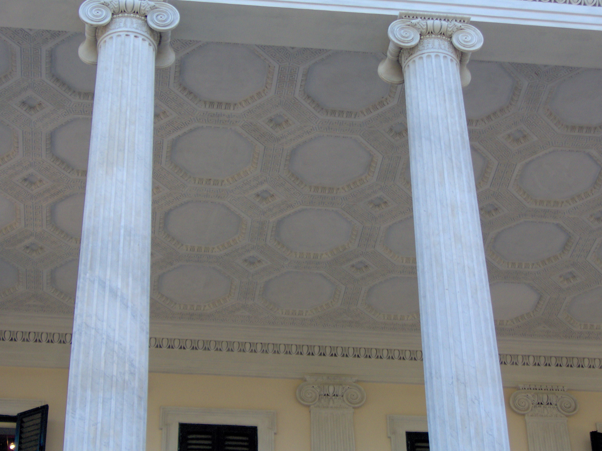 The external roof of Villa Torlonia in Rome.